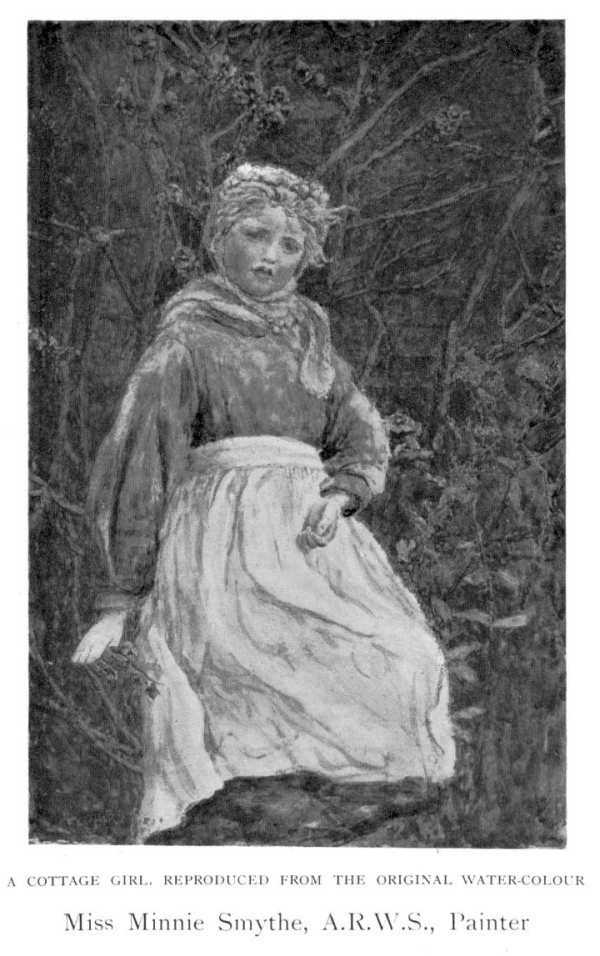 1905 print after page of Women painters of the world, from the time of Caterina Vigri, 1413-1463, to Rosa Bonheur and the present day, by Walter Shaw Sparrow, The Art and Life Library, Hodder & Stoughton, 27 Paternoster Row, London